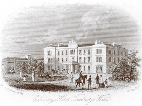 Calverley Hotel - Engraving by Rock and Co. London dated 1860